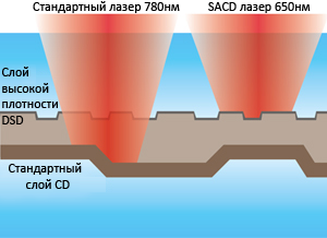 Hybrid SACD